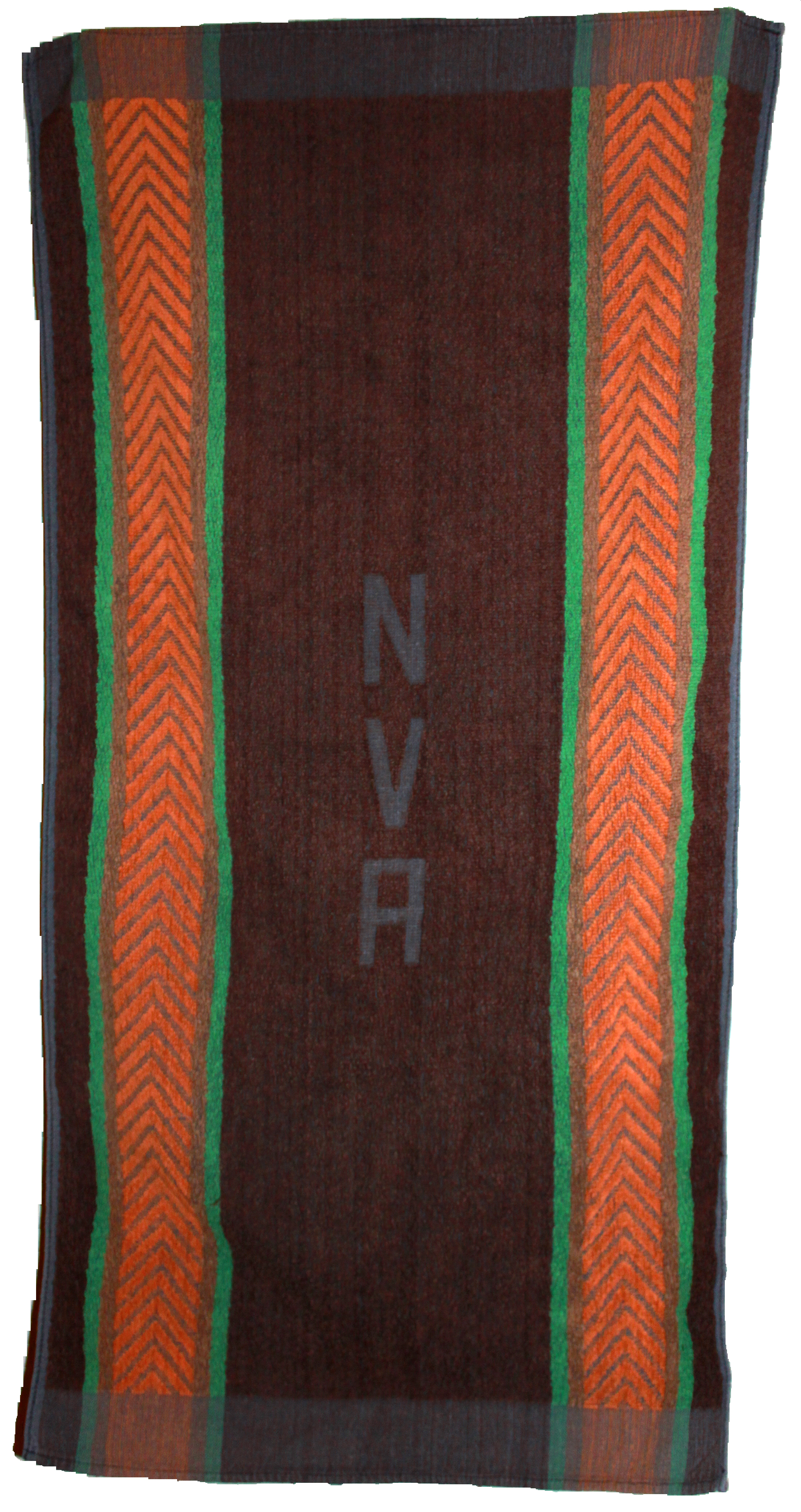 towel from National People's Army of the German Democratic Republic